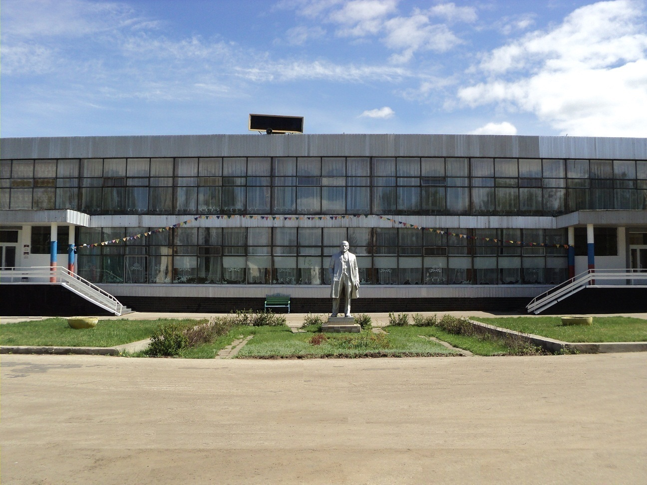 Young Pioneer Camp "Alye Parusa". Had the status of all-Union children's camp. Situated in a forest in the Stavropol district, near Togliatti. After the dissolution in 1991, "Pioneer Organization", property confiscated. The territory of the former camp is divided into three zones. Sanatorium of the "AVTOVAZ", "Togliatti Academy of management", "the Department of custody and guardianship, city of Togliatti. The photo depicts the dining room 2 floor and the monument to founder USSR Vladimir Lenin (symbol, Komsomol and Communist Pioneer Organization of the Soviet Union).